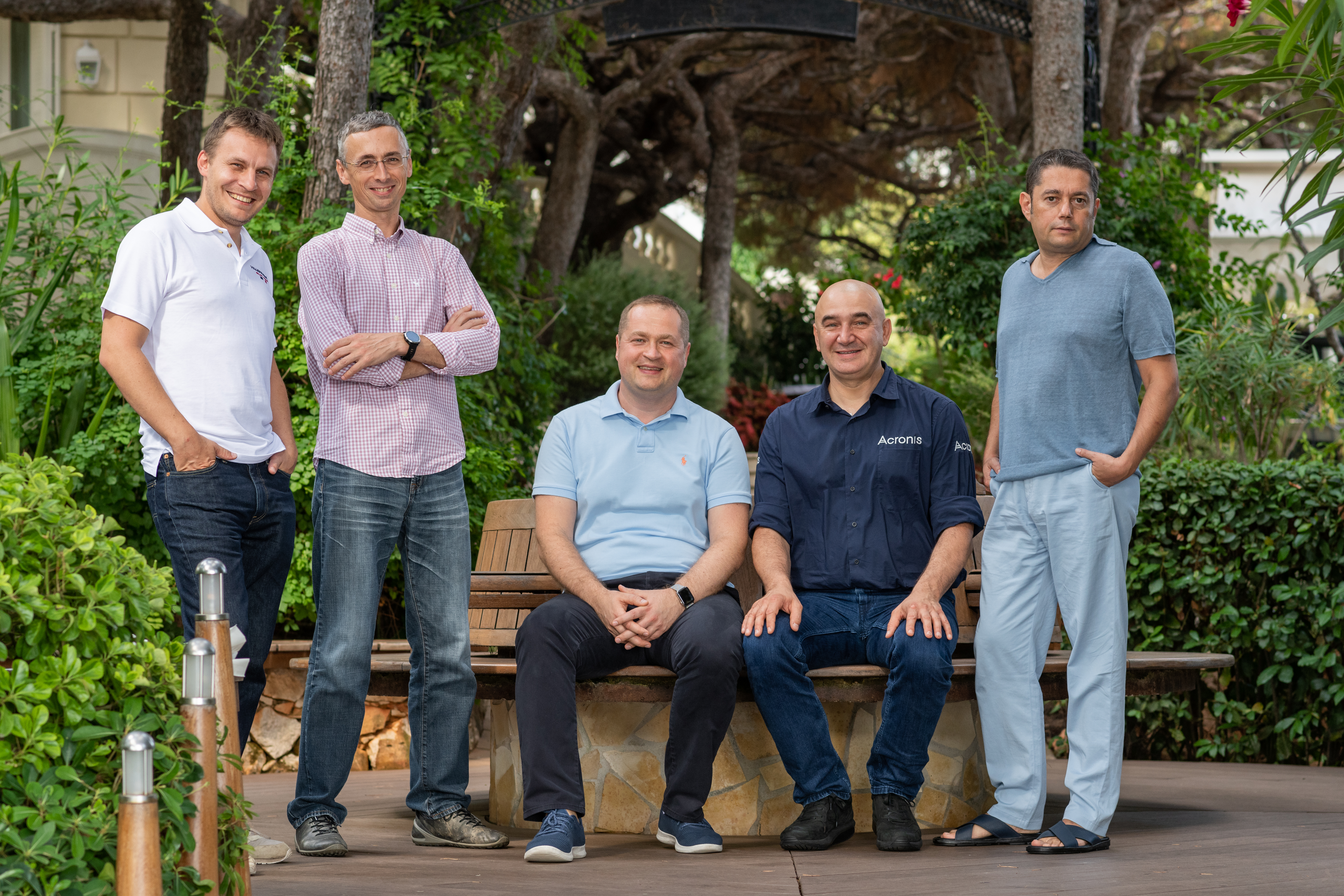 Runa Capital partners (left to right): Dmitry Galperin, Dmitry Chikhachev, Andre Bliznyuk, Serguei Beloussov, Ilya Zubarev